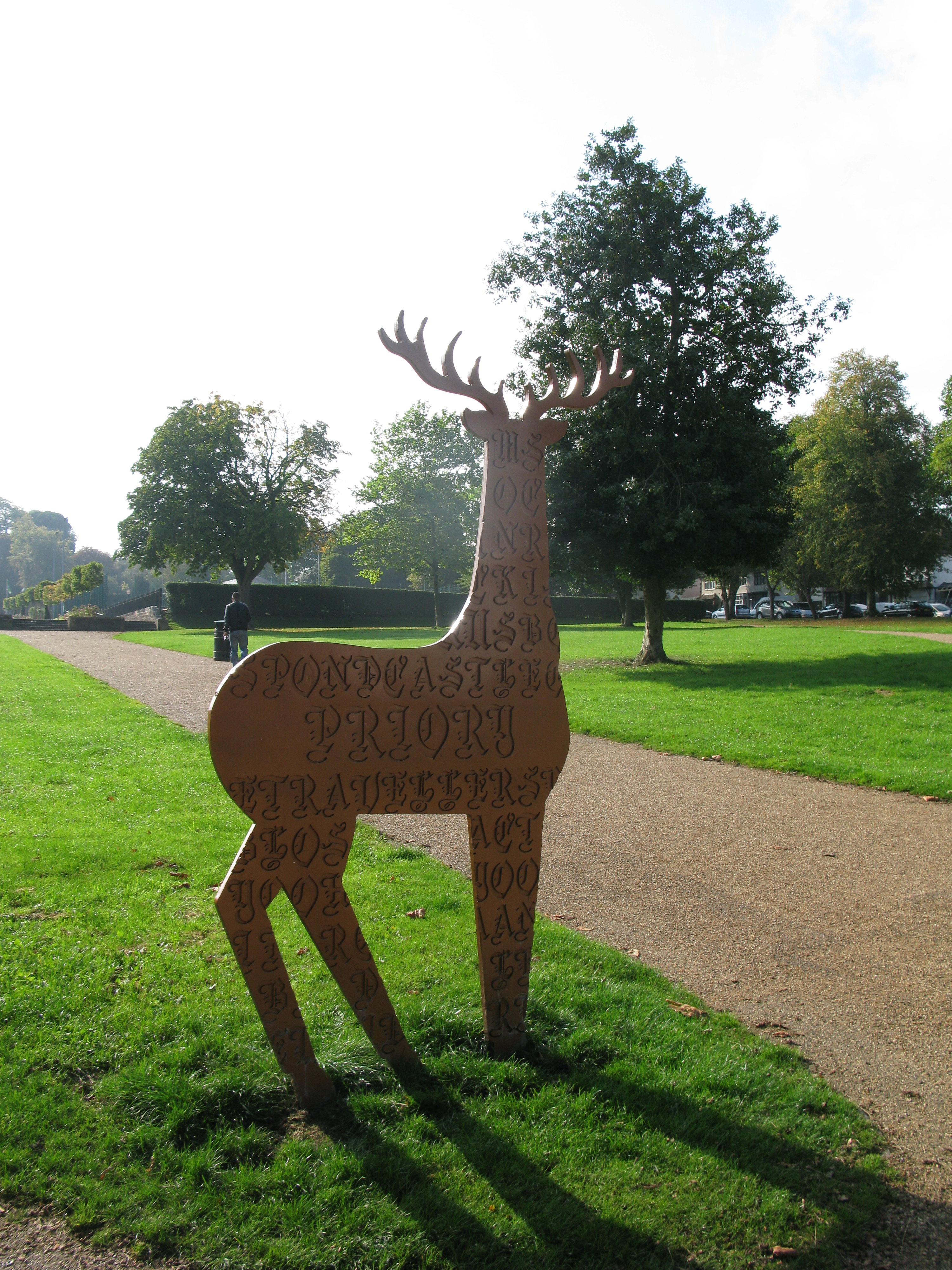 At the northern entrance: artist Carol ann Richards